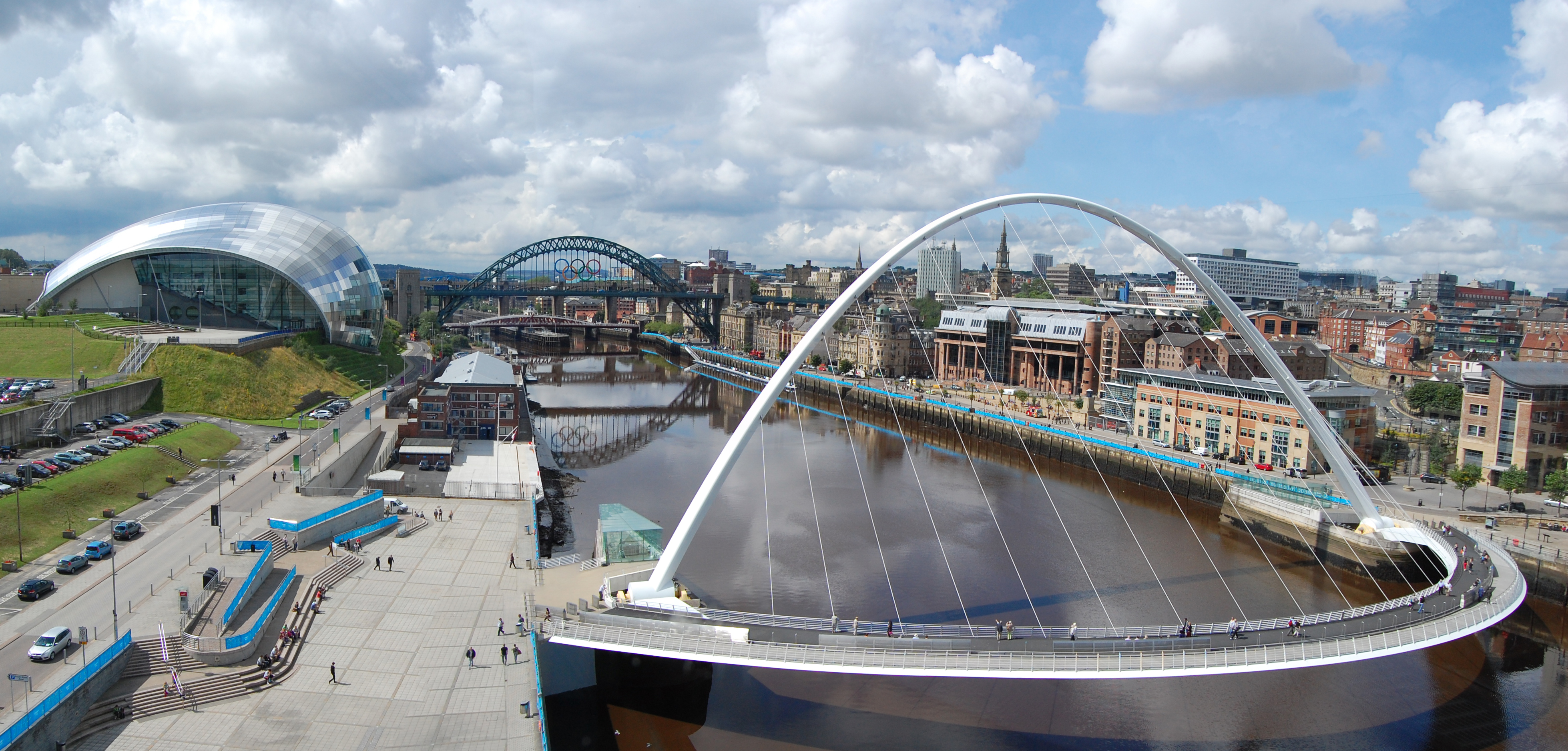 A view of Newcastle from the other side. Gateshead Millenium Bridge is the one seen closest to me.